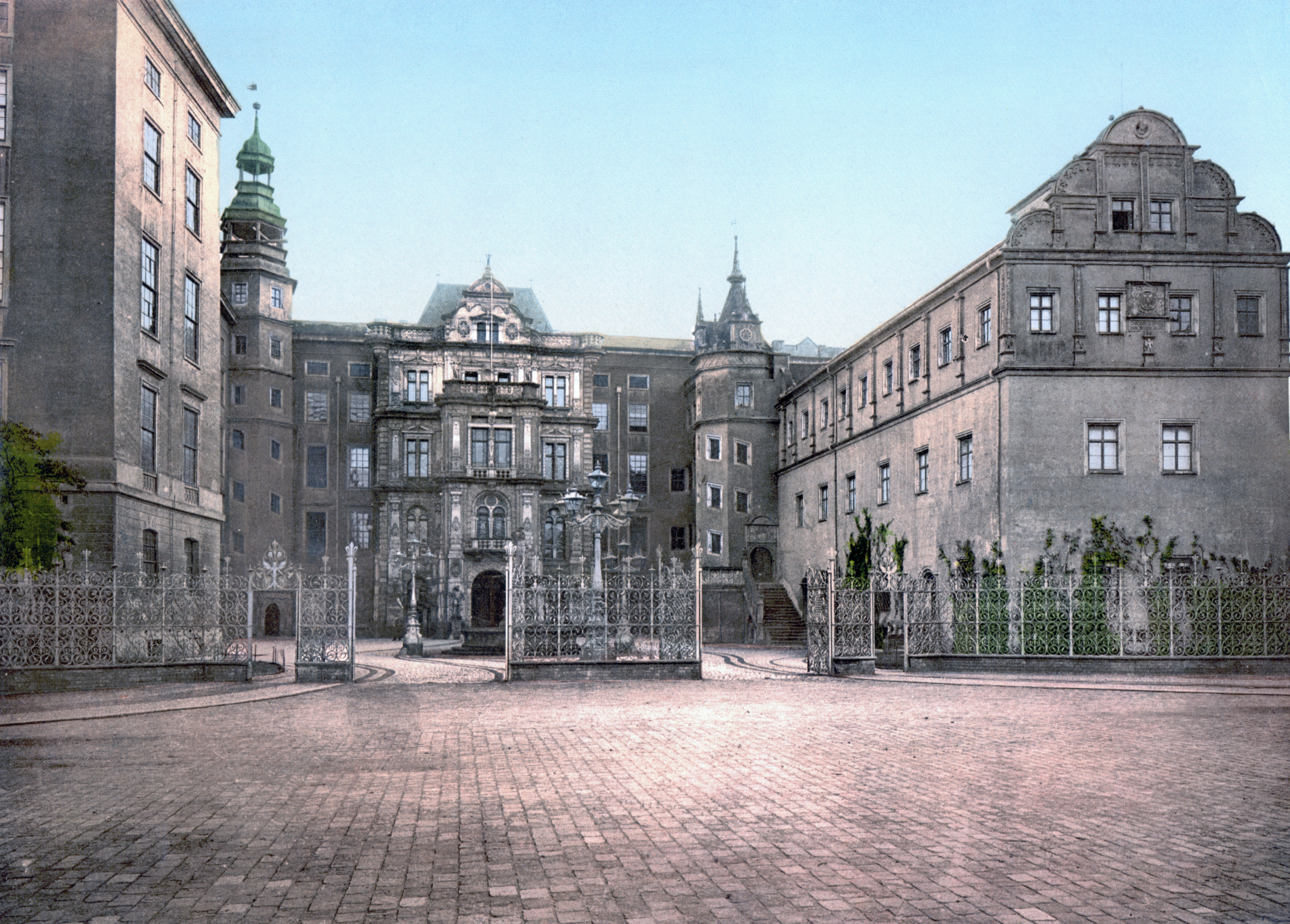 Dessau, (Germany) - Castle